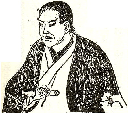 Sakura Sogoro(佐倉惣五郎) was the leader of the redneck riot in the Edo period of Japan.This Picture was carried on the book of the name, " the imperial biographic dictionary （帝国人名辞典）".This book was published in 1907.